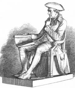 Engraving of Danish architect Caspar Frederik Harsdorff (1735-1799)